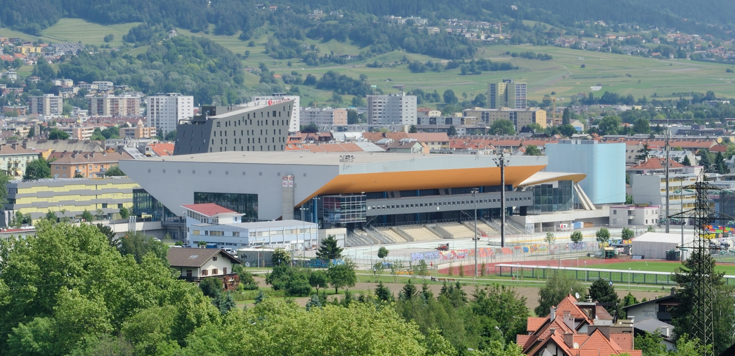 Innsbruck: Olympic hall